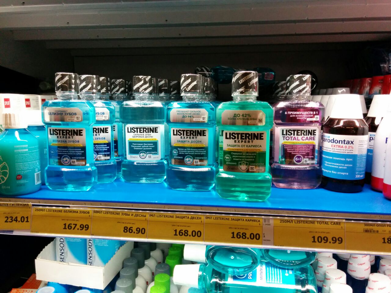 Listerine mouthwash at METRO store, Moscow, 2015